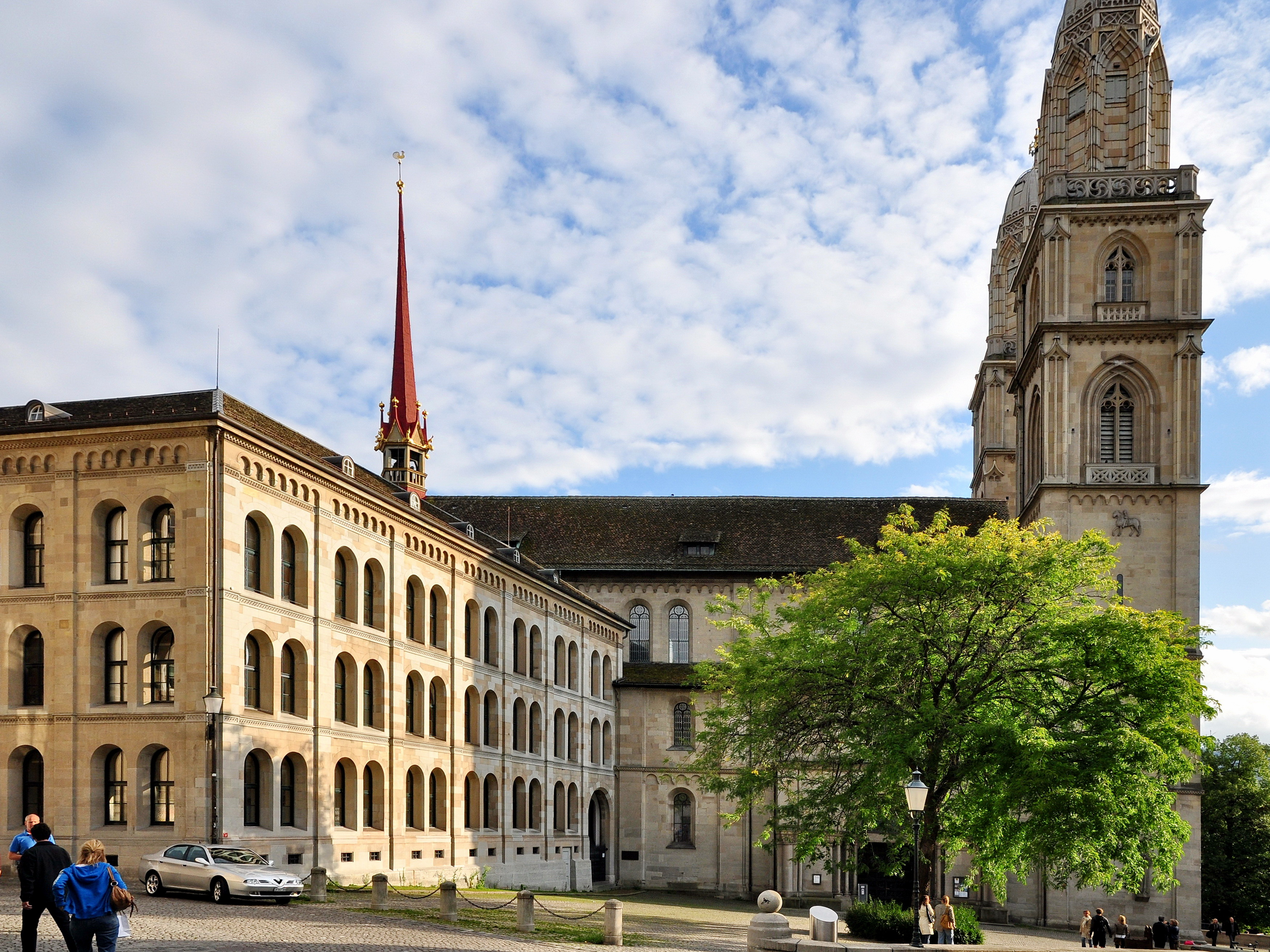 Grossmünster, Grossmünsterplatz and Theologisches Seminar, University of Zurich, respectively former Höhere Töchterschule college in Zürich (Switzerland) as seen from Zwingliplatz